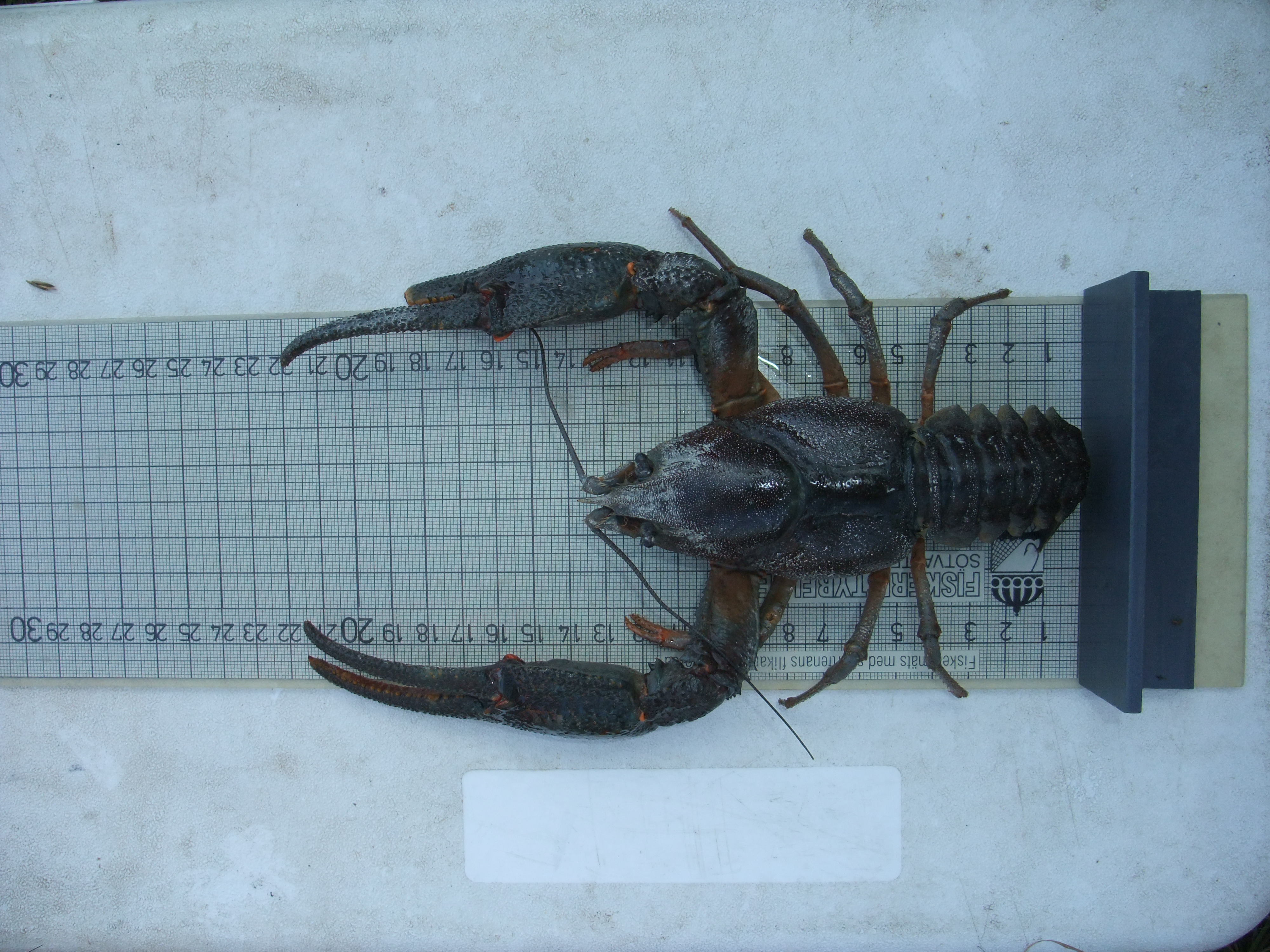 This extraordinarily giant male noble crayfish (total length 15.4 cm) was caught by test fishing from the Island of Saaremaa in 1st August 2013. It is quite rare to catch so big crayfish. It looks like real grandfather of crayfish which are demonstrated by the grayish colour on the carapace.